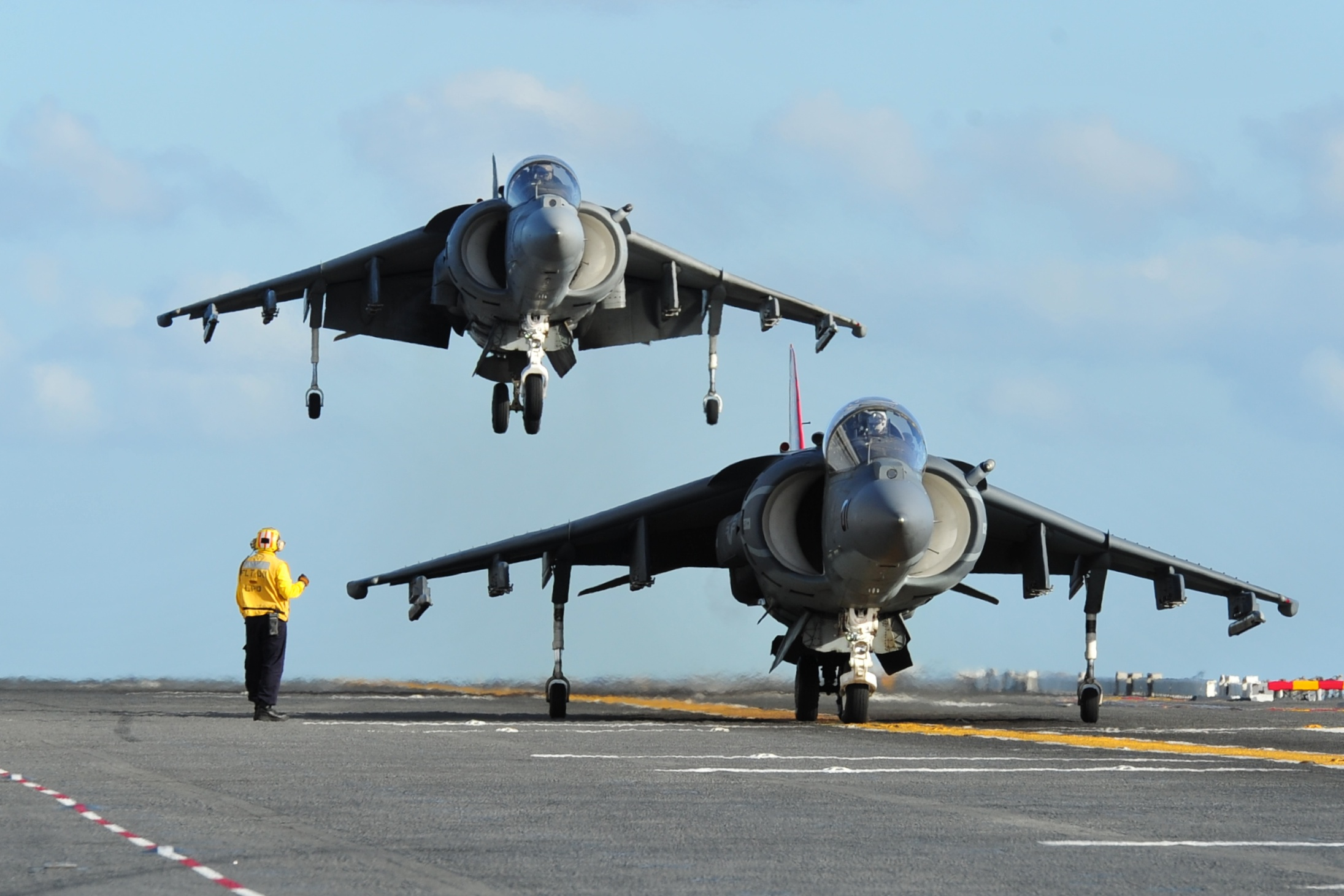 PACIFIC OCEAN (Feb. 17, 2011) An AV-8B Harrier assigned to the Black Sheep of Marine Attack Squadron (VMA) 214, front, prepares for takeoff as another lands aboard the amphibious assault ship USS Makin Island (LHD 8). Makin Island is conducting AV-8 operations in preparation for an upcoming deployment. (U.S. Navy photo by Chief Mass Communication Specialist John Lill/Released)